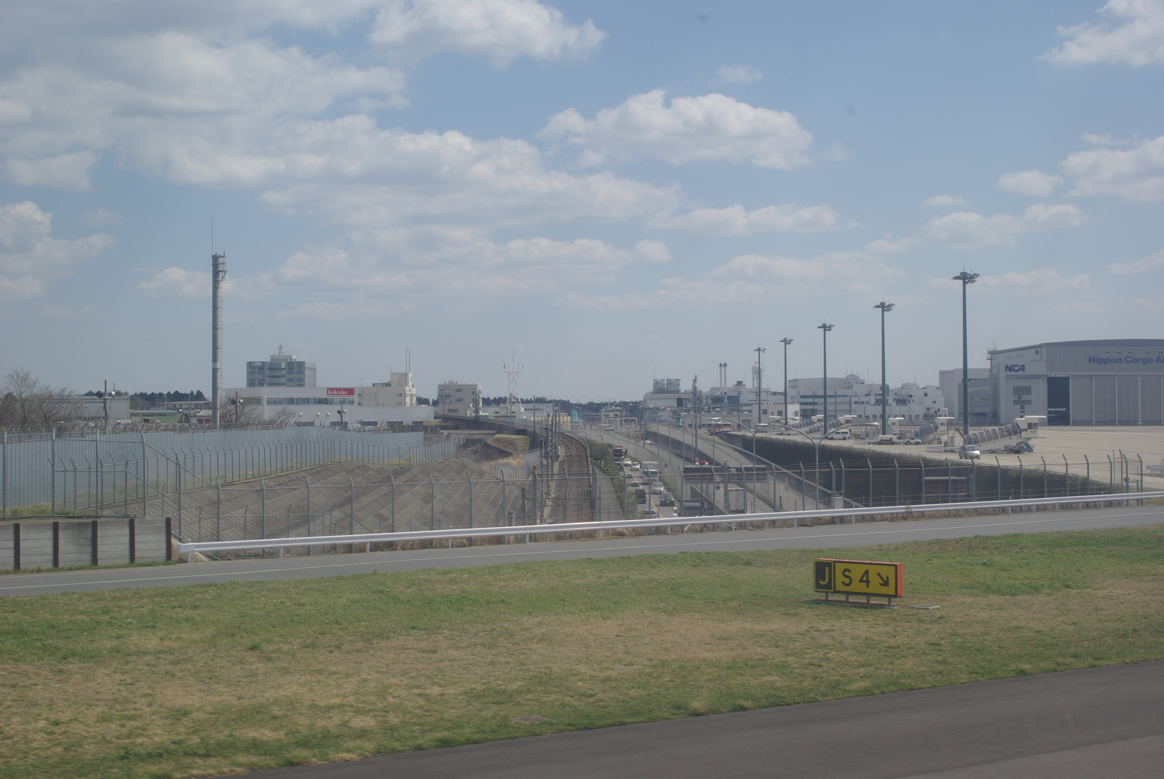 Shibayama railway, taken from airplane at taxing in Narita airport